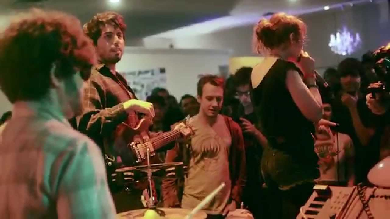 Guerilla Toss performing at Brighton Music Hall in Boston, MA as part of Hassle Fest 2014.